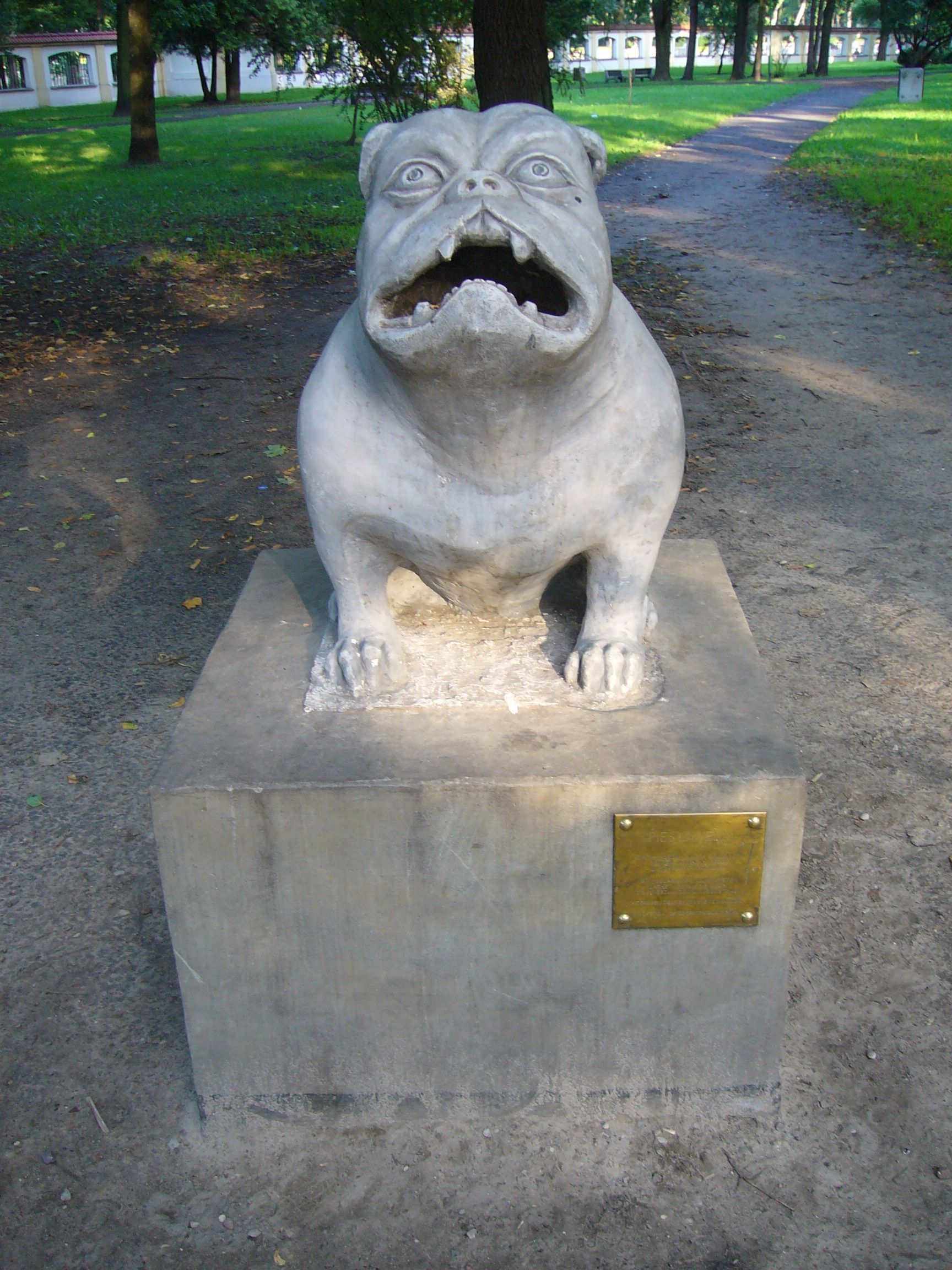 Dog Kawelin - replica of sculpture in Białystok.